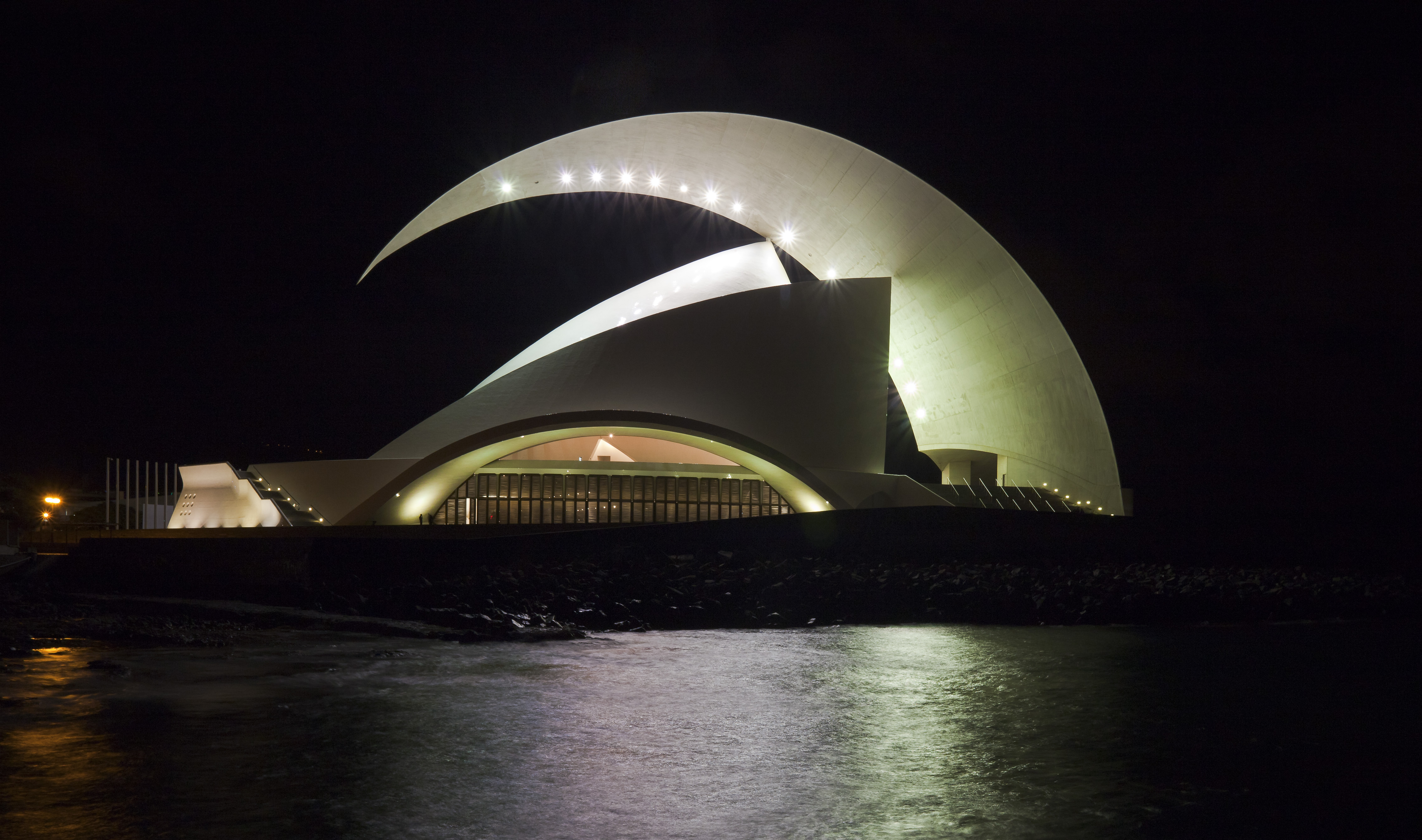 Auditorium of Tenerife, Santa Cruz de Tenerife, Spain